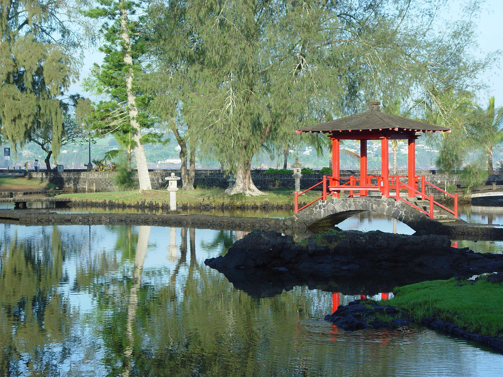 Japanese Gardens in Hilo, Big island of Hawaiʻi.